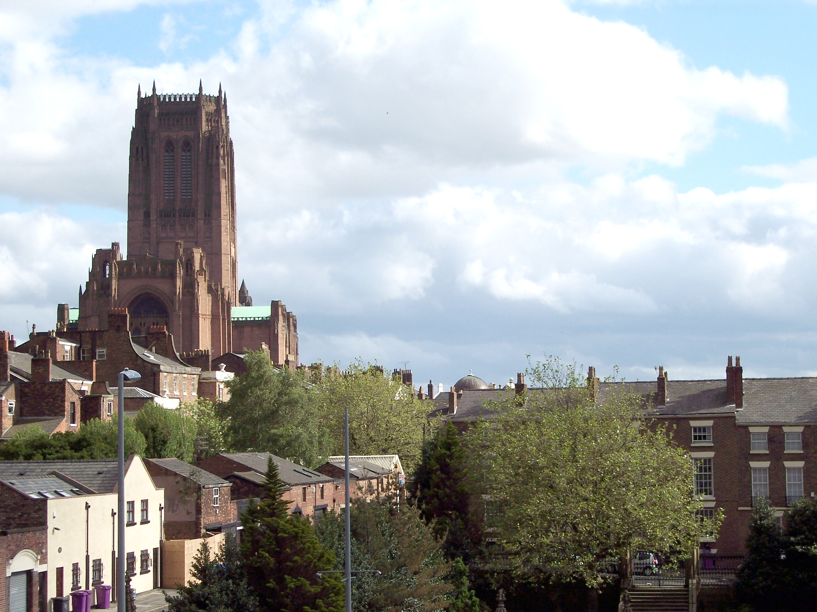 Anglican Cathedral picture by Rob